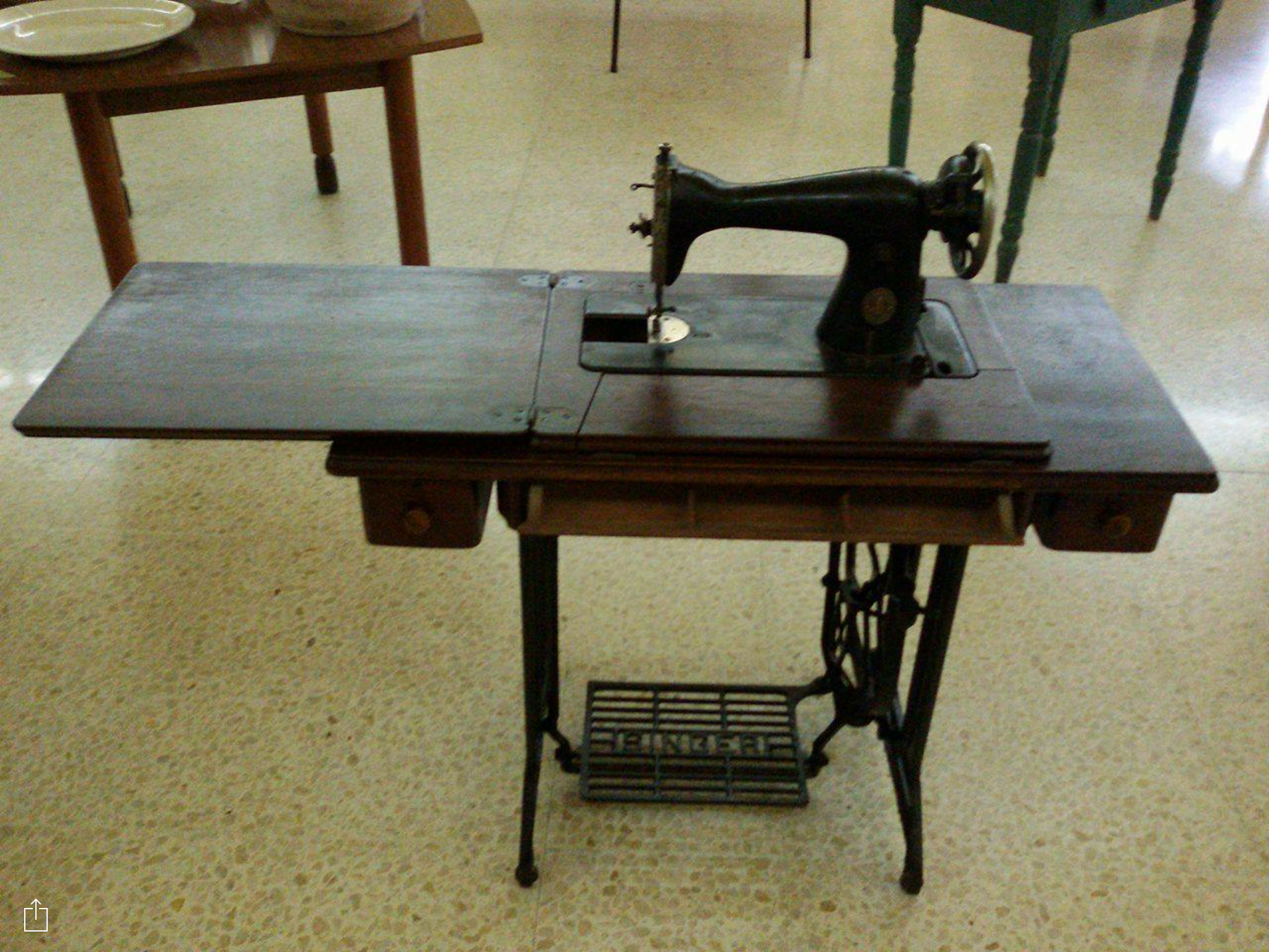 Early 20th-century Singer sewing machine in Malta